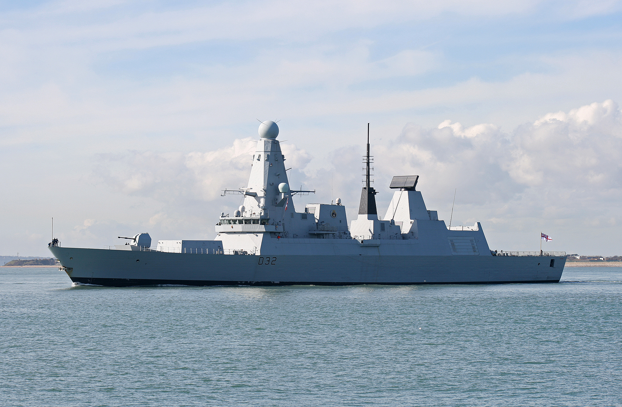 HMS Daring (D32), a stealth design of area defence anti-aircraft destroyer of the Royal Navy, outward bound from Portsmouth Naval Base, UK.